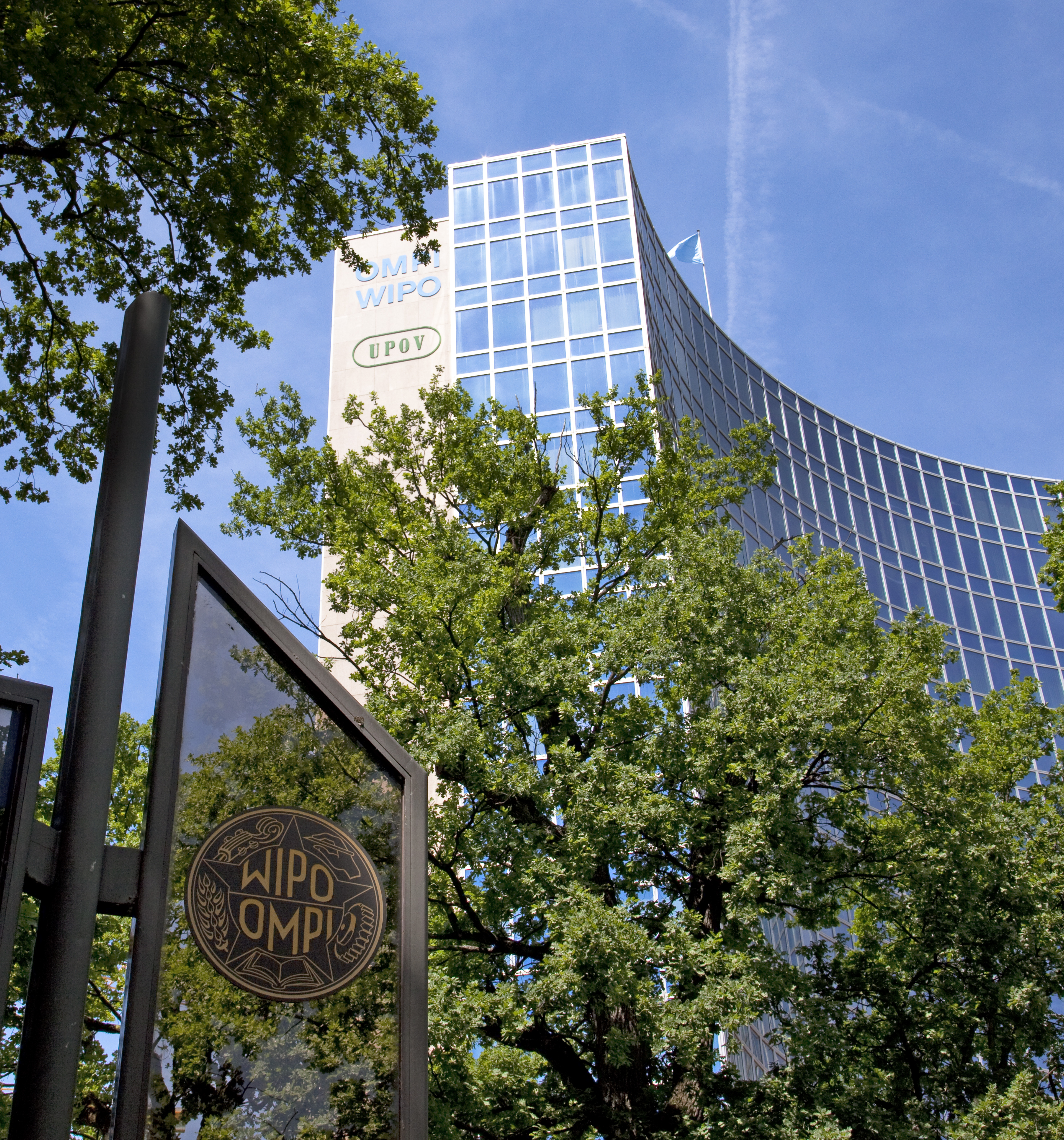 World Intellectual Property Organization (WIPO) and International Union for the Protection of New Varieties of Plants (UPOV) Headquarters (the Árpád Bogsch Building also known as the Main Building) in Geneva, Switzerland